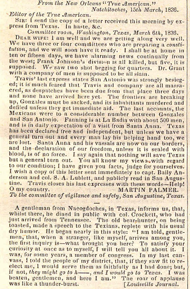 March 6, 1836 letter written by delegate, Martin Parmer, from the Convention at Washington-on-the-Brazos to the people of Texas advising them of losses suffered by the Texians at the hands of the Mexican Army and encouraging a "general turn out" by the Texians in order to secure the independence of Texas. This letter was originally published in the Niles' Weekly Register published at Baltimore on April 9, 1836 on page 99. Just below Parmer's letter is the famous story of Davy Crockett that if the people of his Congressional district did not re-elect him that "they might go to hell, and I would go to Texas."